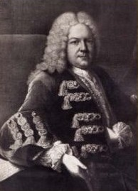 Benjamin Keene 1697-1757 British diplomat (18th C.)